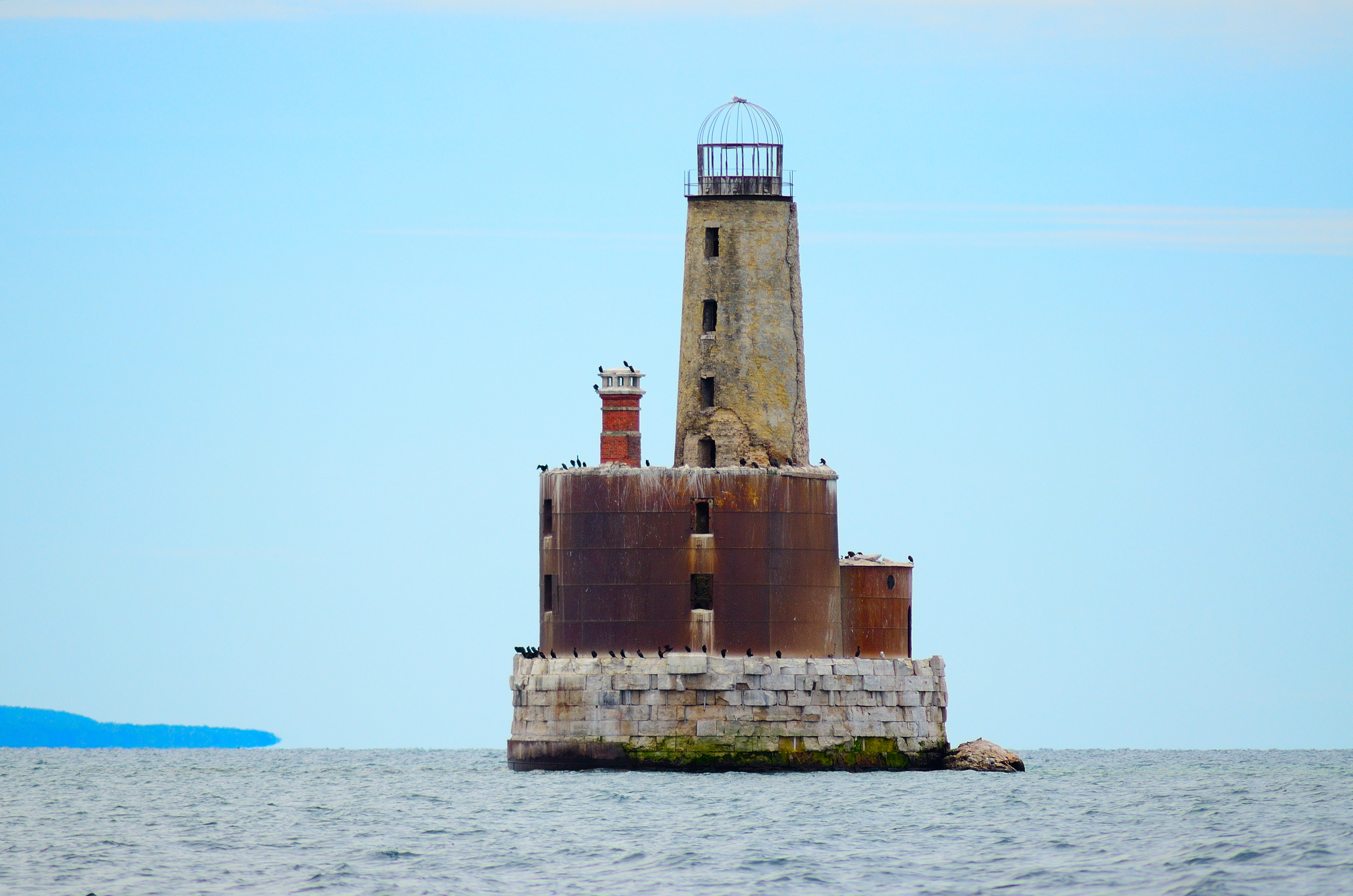 Shot passing by the light